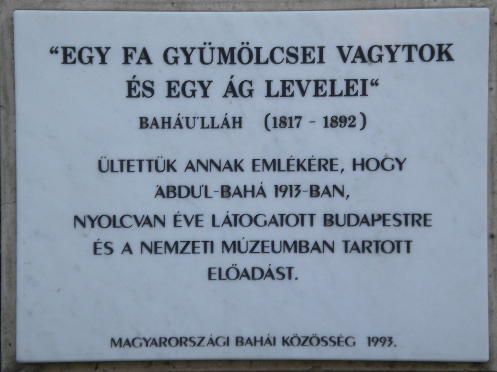 Plaque in the park of the National Museum, in memory of 'Abdu'l-Bahá's visit to Budapest 80 years ago. The text says: “ ‘Ye are the fruits of one tree, and the leaves of one branch’ Bahá’u’lláh (1817-1892) We planted in the memory that ‘Abdu’l-Bahá in 1913, 80 years ago visited Budapest and gave a lecture at the National Museum. Bahá’í Community of Hungary 1993”